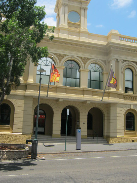 Ipswich Town Hall, 114 Brisbane Street, Ipswich, Queensland